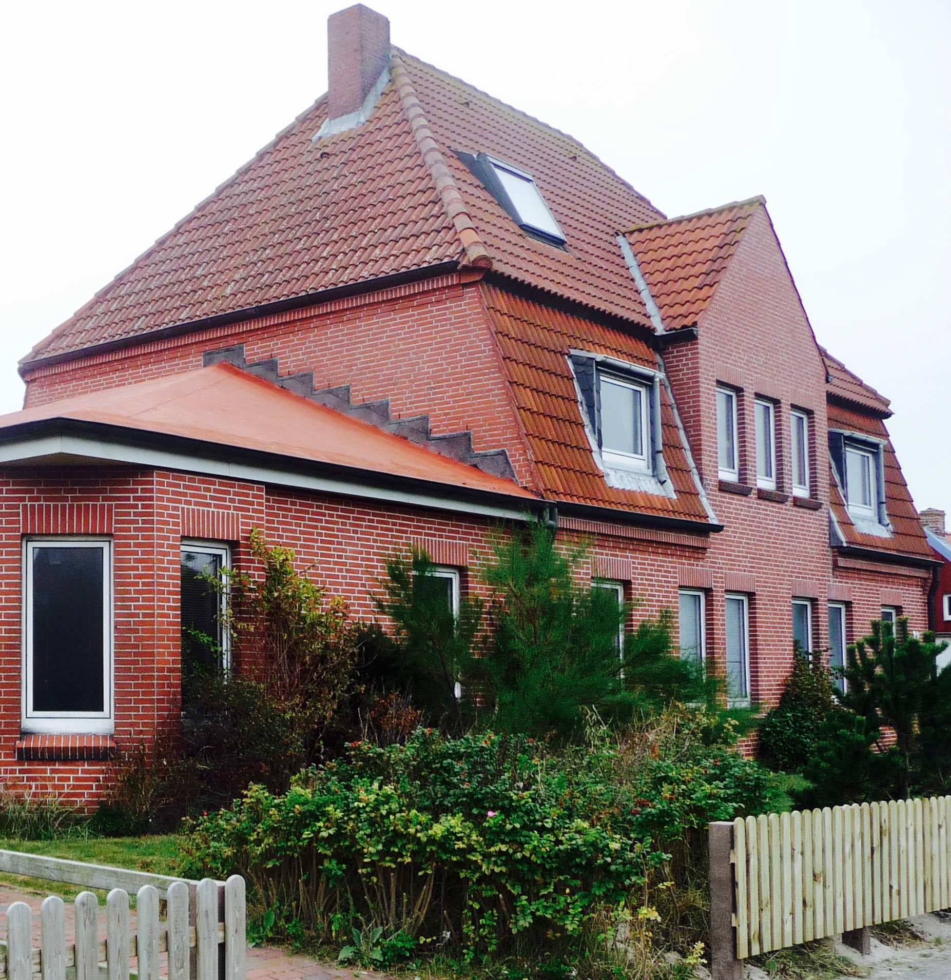 Doyen house at Loog on Juist Island, East Frisia, Lower Saxony, Germany. Named as "do" it was part of Schule am Meer until 1934, inhabited by Martin Luserke (1880–1968) and his family, by Eduard Zuckmayer (1890–1972) as well as Fritz Hafner (1877–1964) and his family.